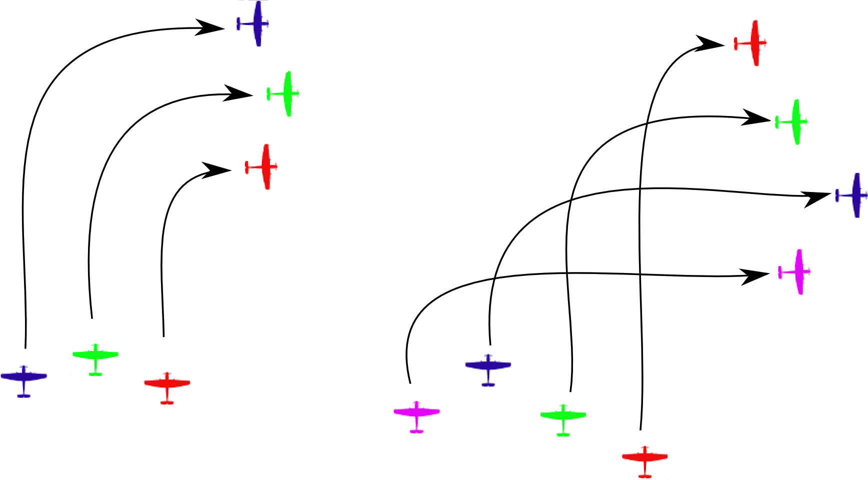 A Kette formation to the left, a Schwarm to the right.